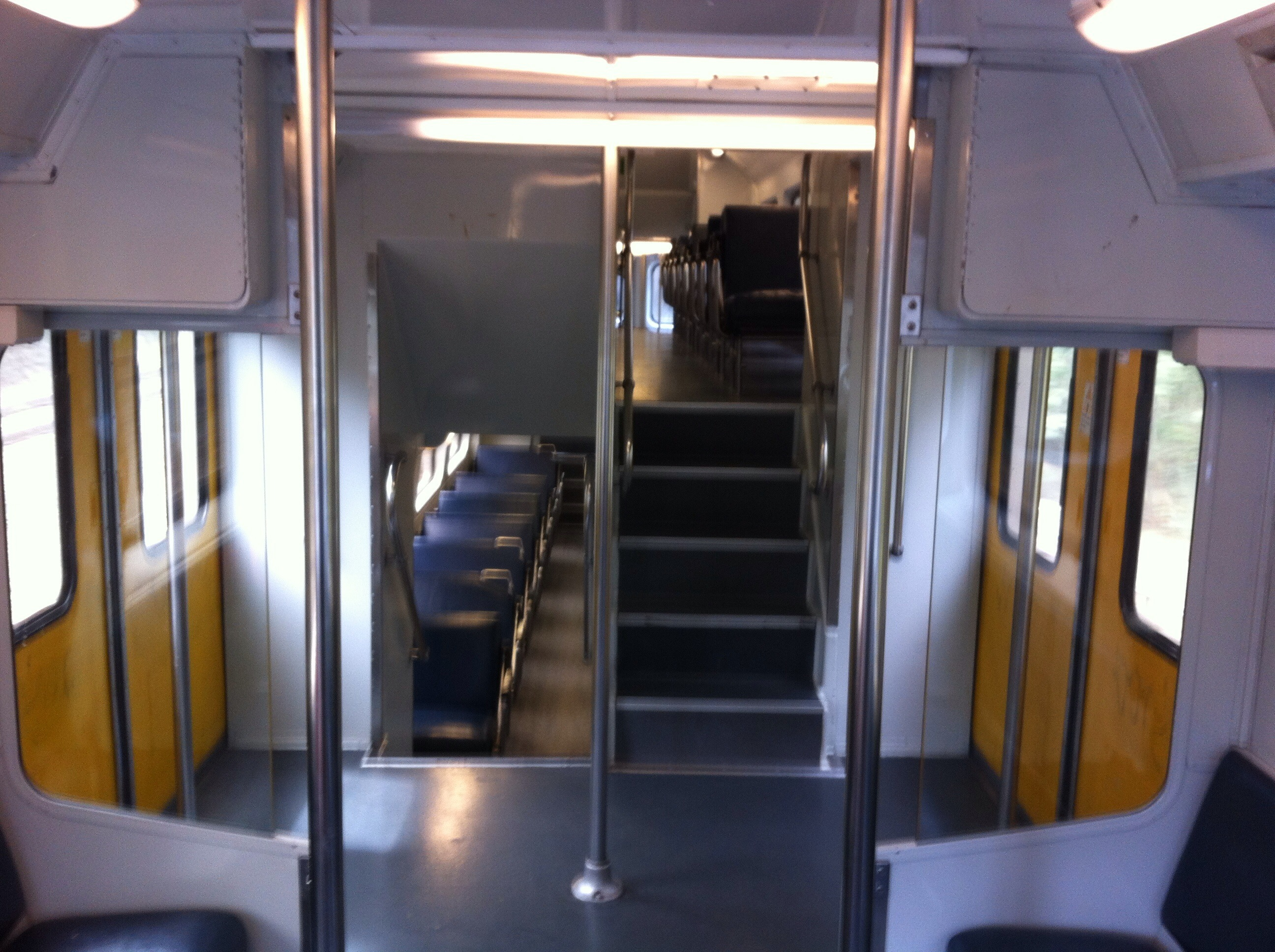 Interior of one of Sydney's double decker suburban trains.